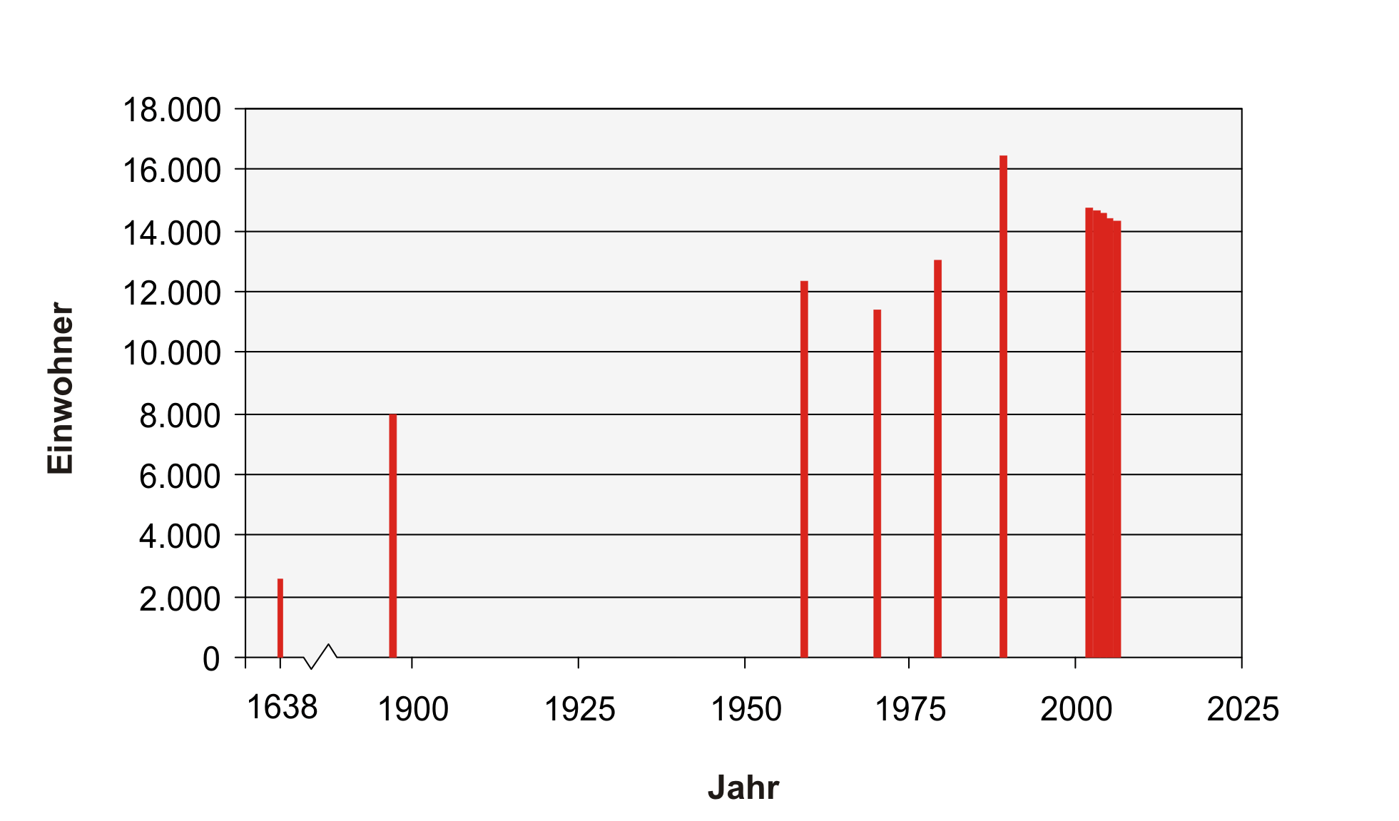 Description = Chorol Population Source = own work, Skluesener Date = 09.12.2006 Author = Skluesener